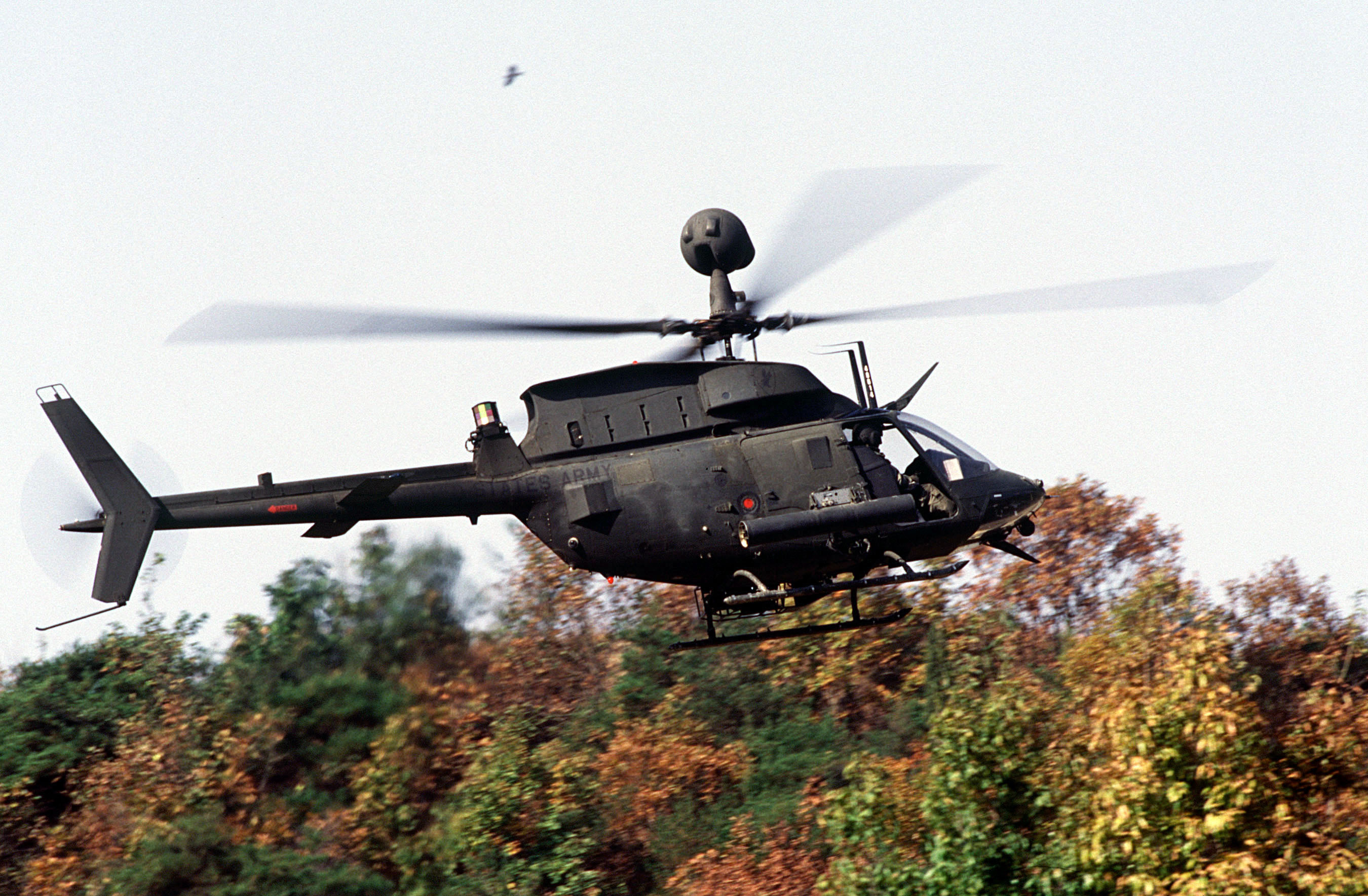 A US Army OH-58D helicopter with the 4th Squadron, 7th Cavalry Regiment hovers over the treetops as it prepares to support armor belonging to C Troop of the 4-7 Cavalry during maneuvers and gunnery training at the Korea Training Center, Republic of Korea on Oct. 25, 1998. The center is manned throughout the year and various armored units rotate through training scenarios to meet yearly live gunnery training requirements.